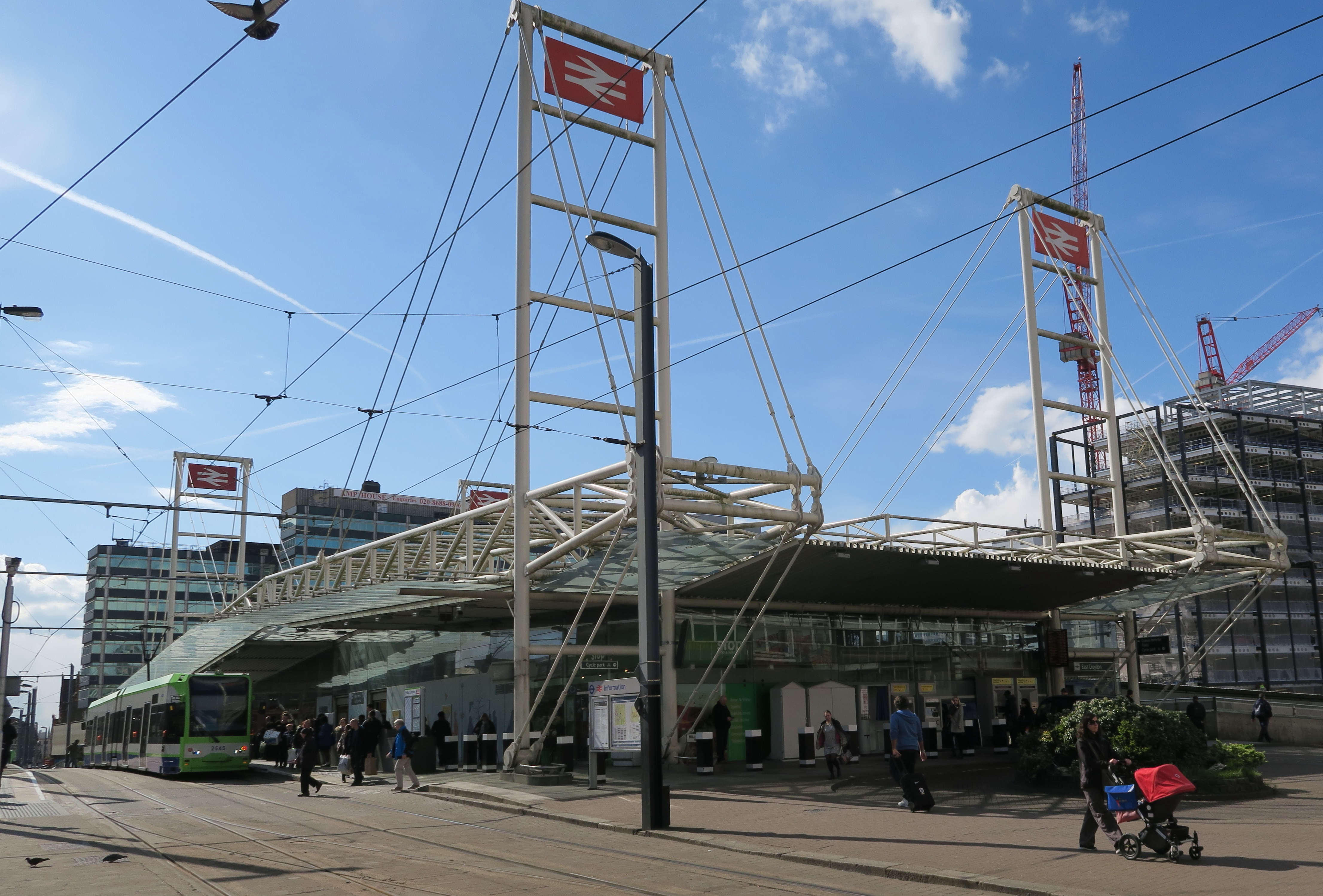 East Croydon Station, view from bus station